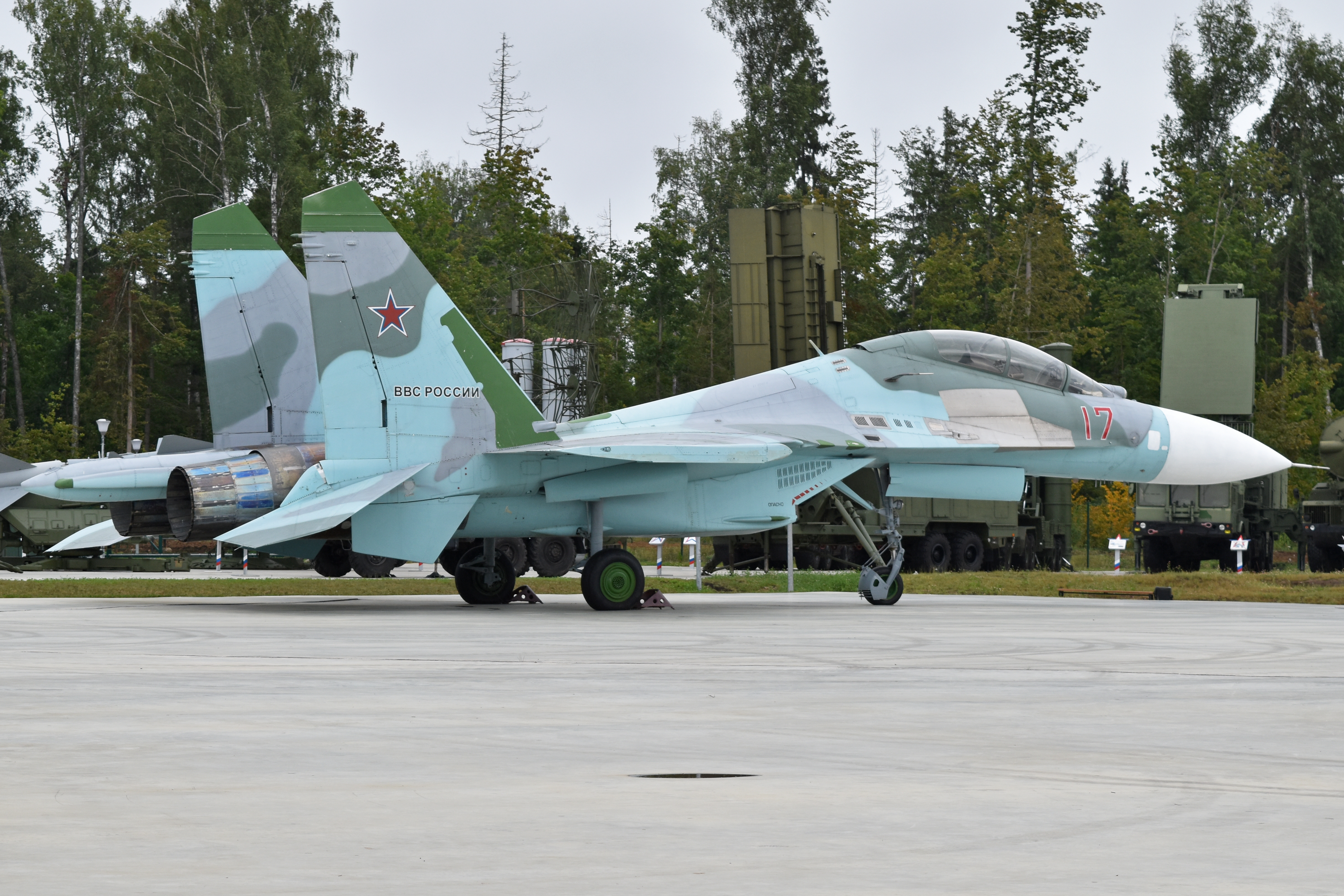 c/n 96310422069. NATO codename:- Flanker-C Previously flew as ’69 red’ until transfered to the Russian Knights formation team. It was then allocated the code ’26 blue’ but never flew as such. Refurbished by the 121st Aircraft Repair Plant at Kubinka in early 2016 and given a false bort code, it is now on display in Area 1 of the Patriot Museum Complex. Park Patriot, Kubinka, Moscow Oblast, Russia. 25th August 2017